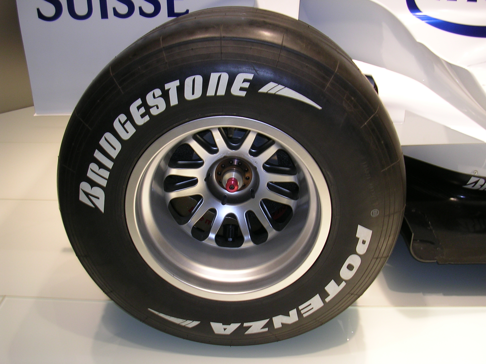 BMW Sauber F1.06 rear wheel with Bridgestone tyre. BMW Welt, Munich, 2008.